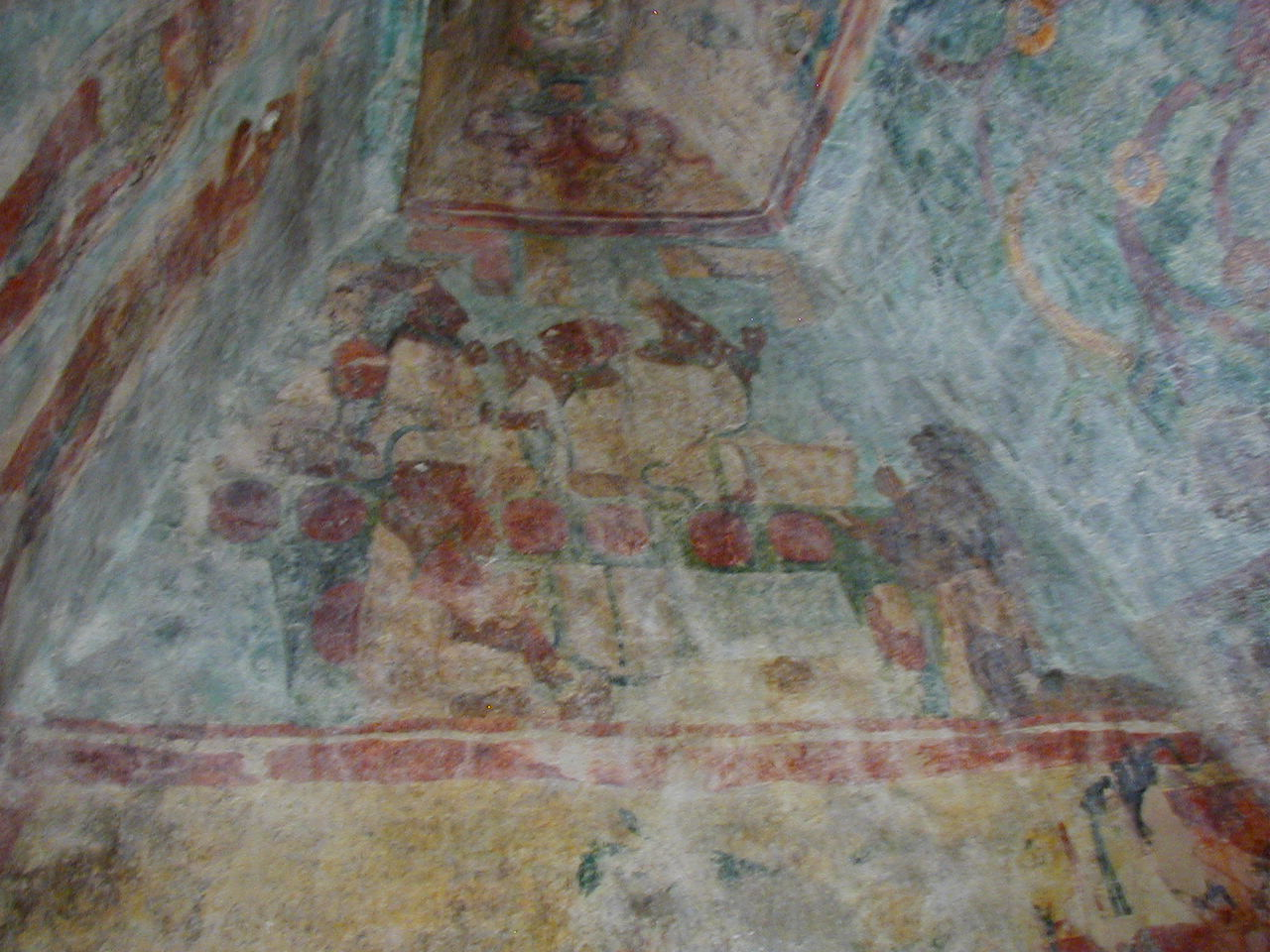 Murals at Maya site of Bonampak